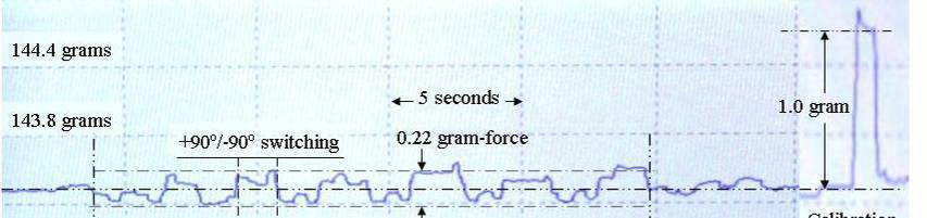 Plot diagram of the 2006 Woodward effect test results.